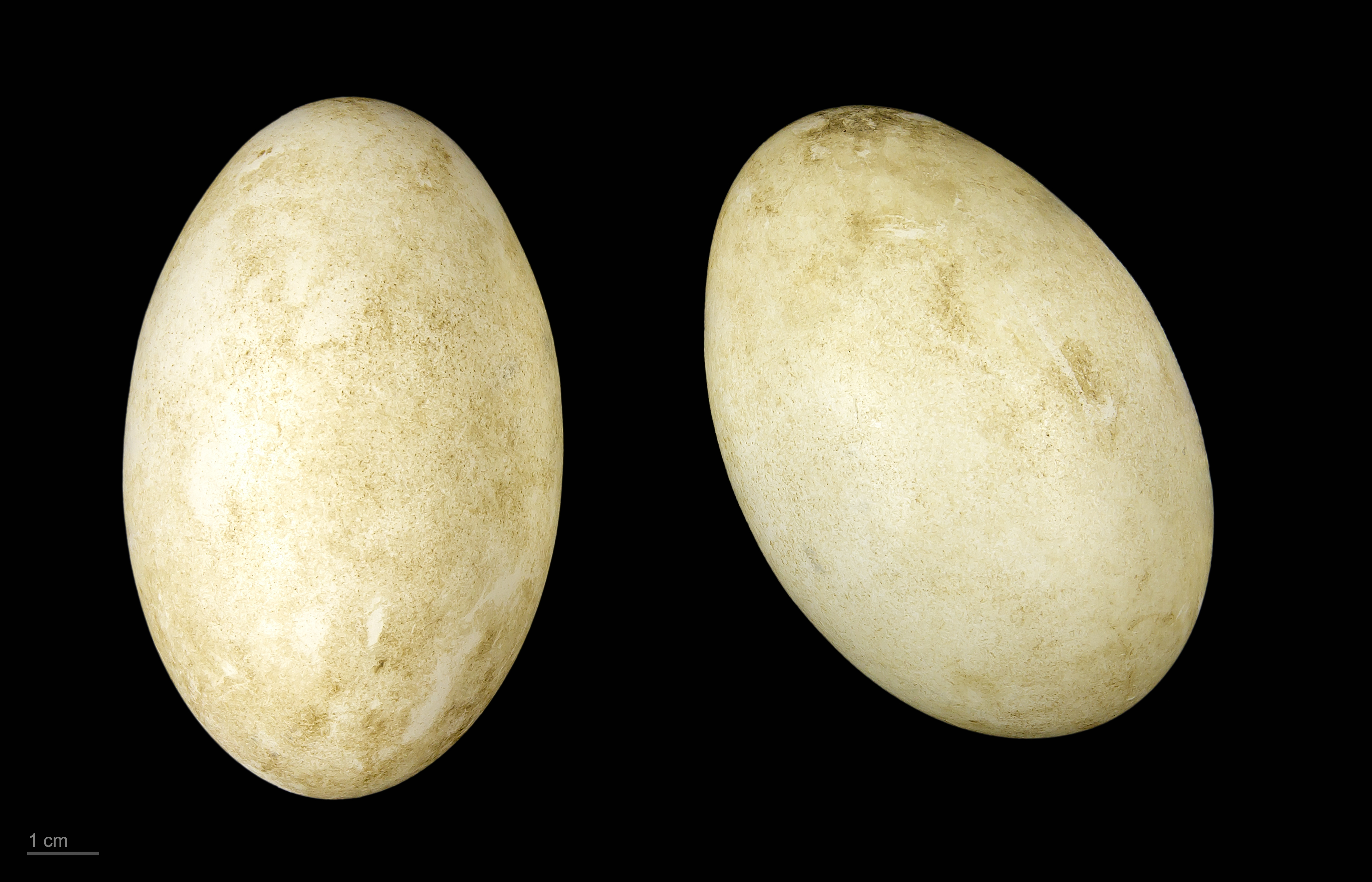 Egg of nene Collection of Jacques Perrin de Brichambaut.